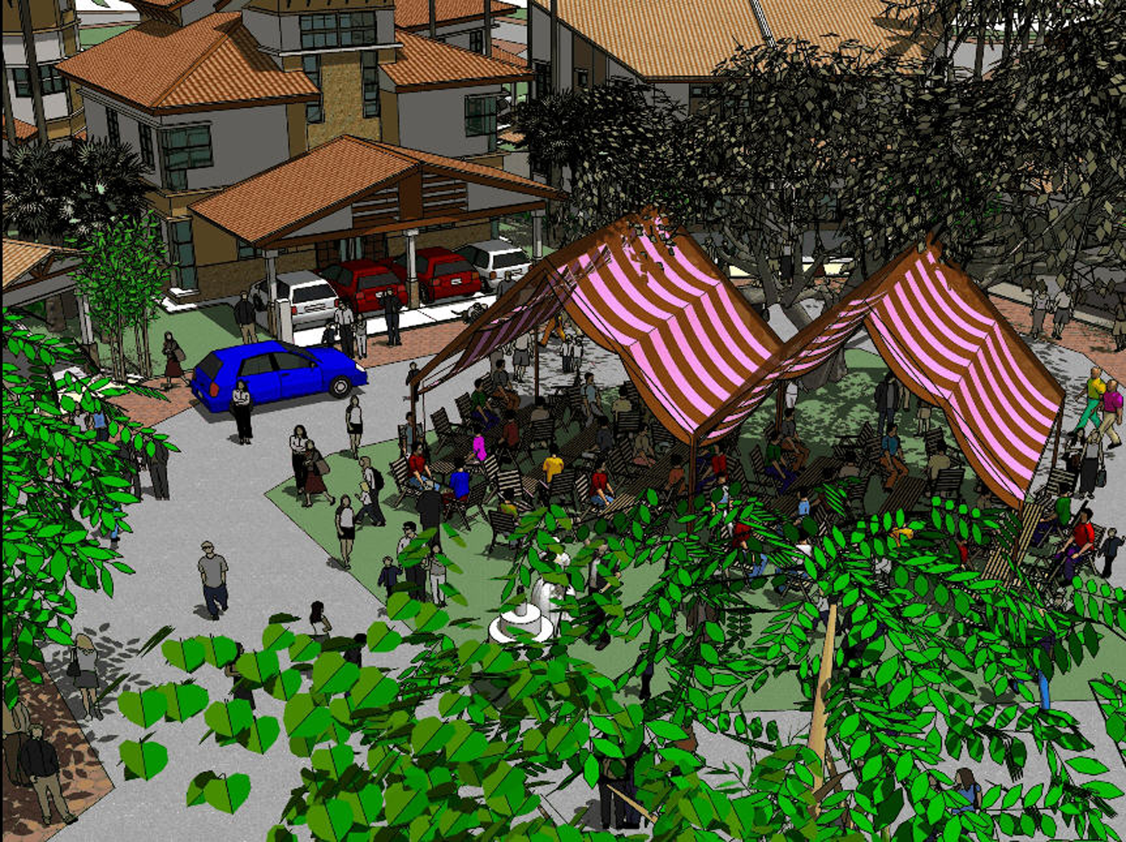 View of how courtyards can be used for communal events in the proposed hillside Honeycomb project at Nong Chik